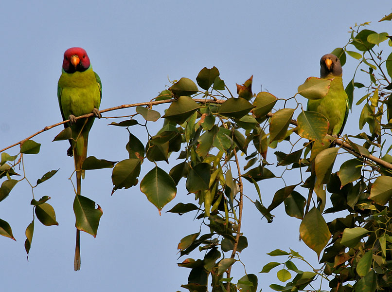 Plum-headed Parakeet Psittacula cyanocephala in Hyderabad, India.